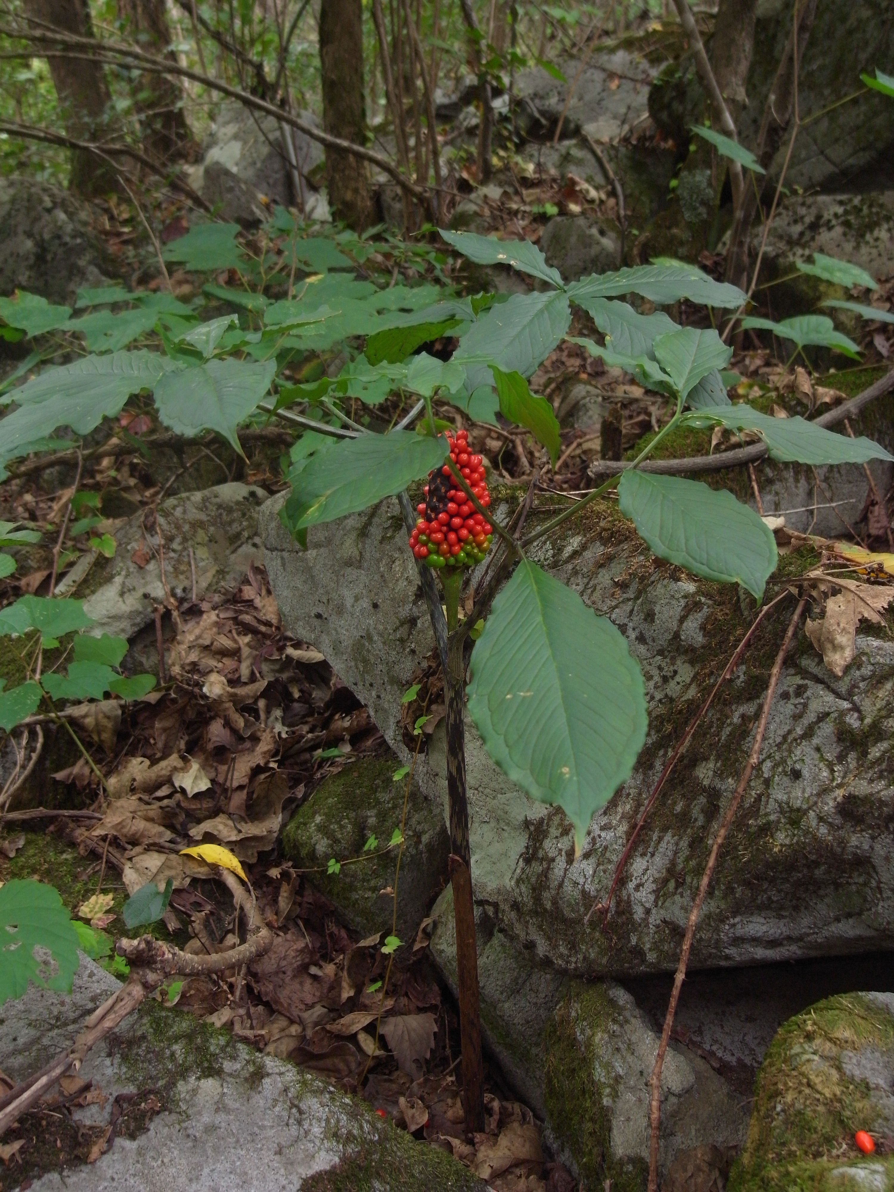 Arisaema peninsulae in Mudeungsan, Korea